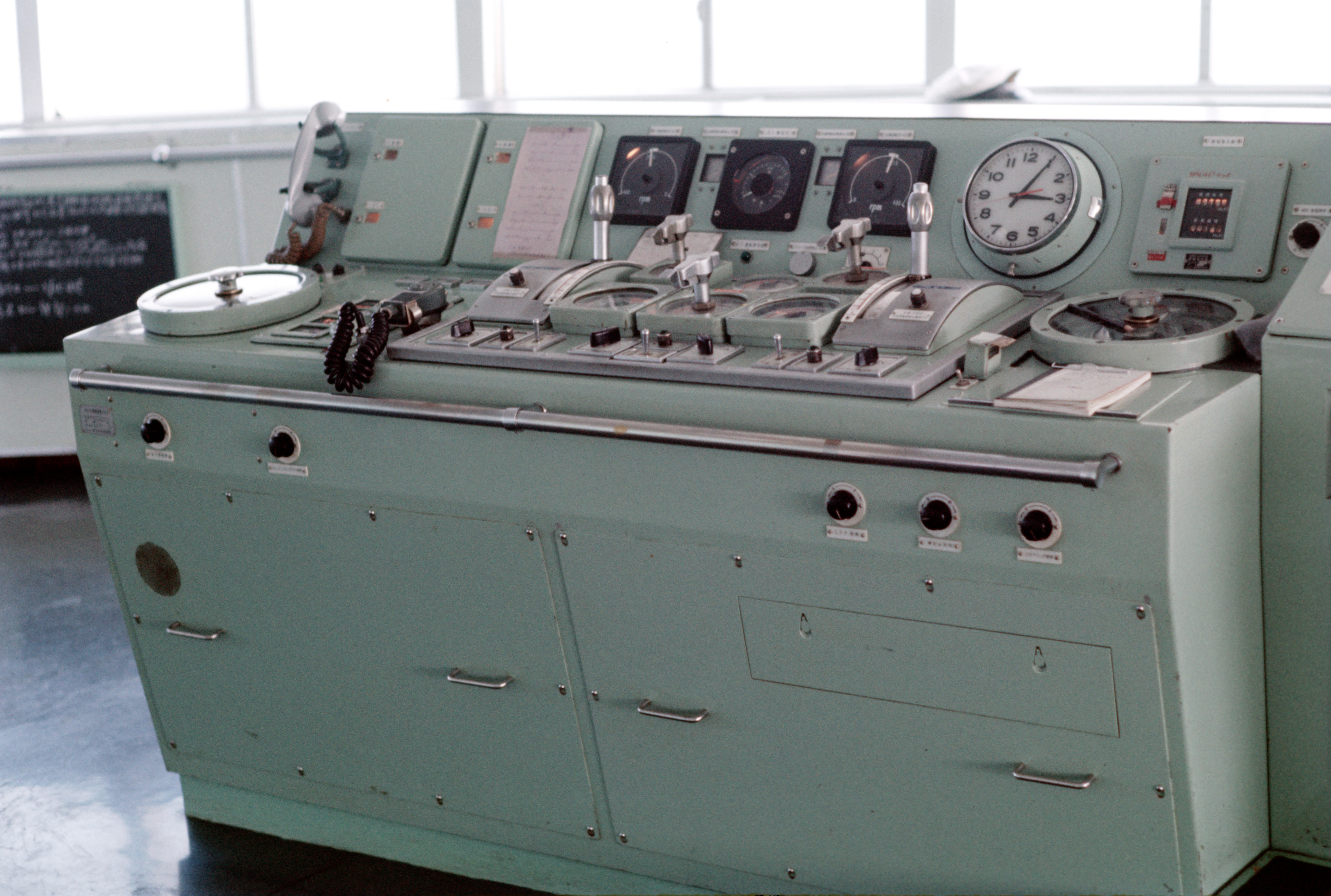 MS TOWADA MARU2 wheel house propeller control console